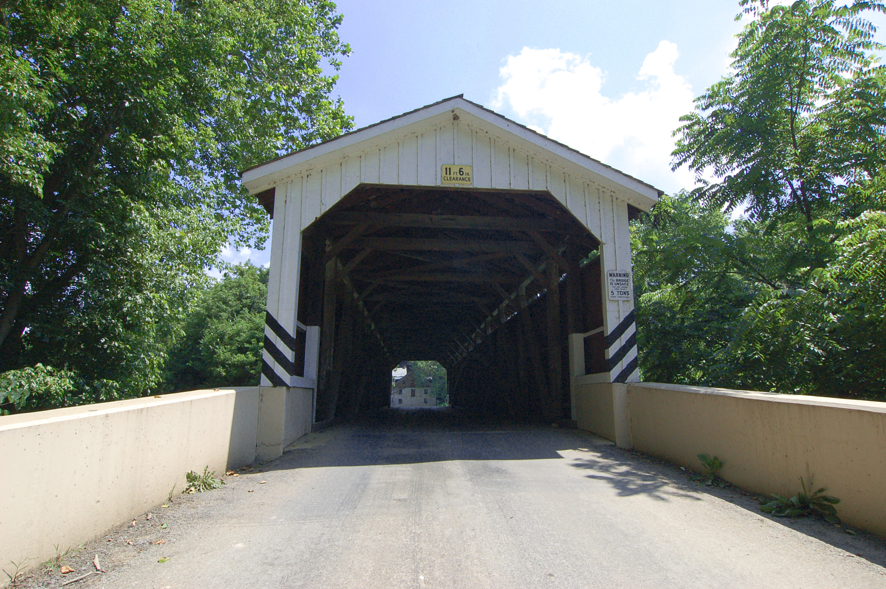 A photograph of approach on one side of the Baumgardener's Covered Bridge located in Lancaster County, Pennsylvania.